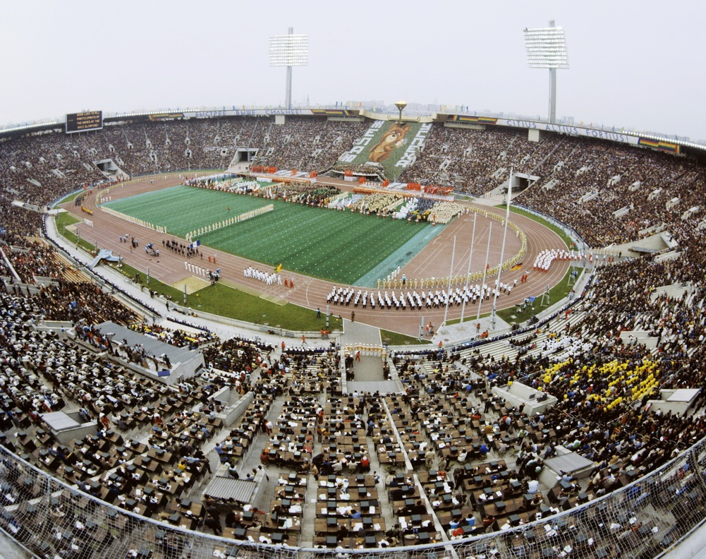 «Opening ceremony of the 1980 Olympic Games». Opening ceremony of the 1980 Olympic Games. Parade of nations. View on the Central Lenin Stadium in Luzhniki.